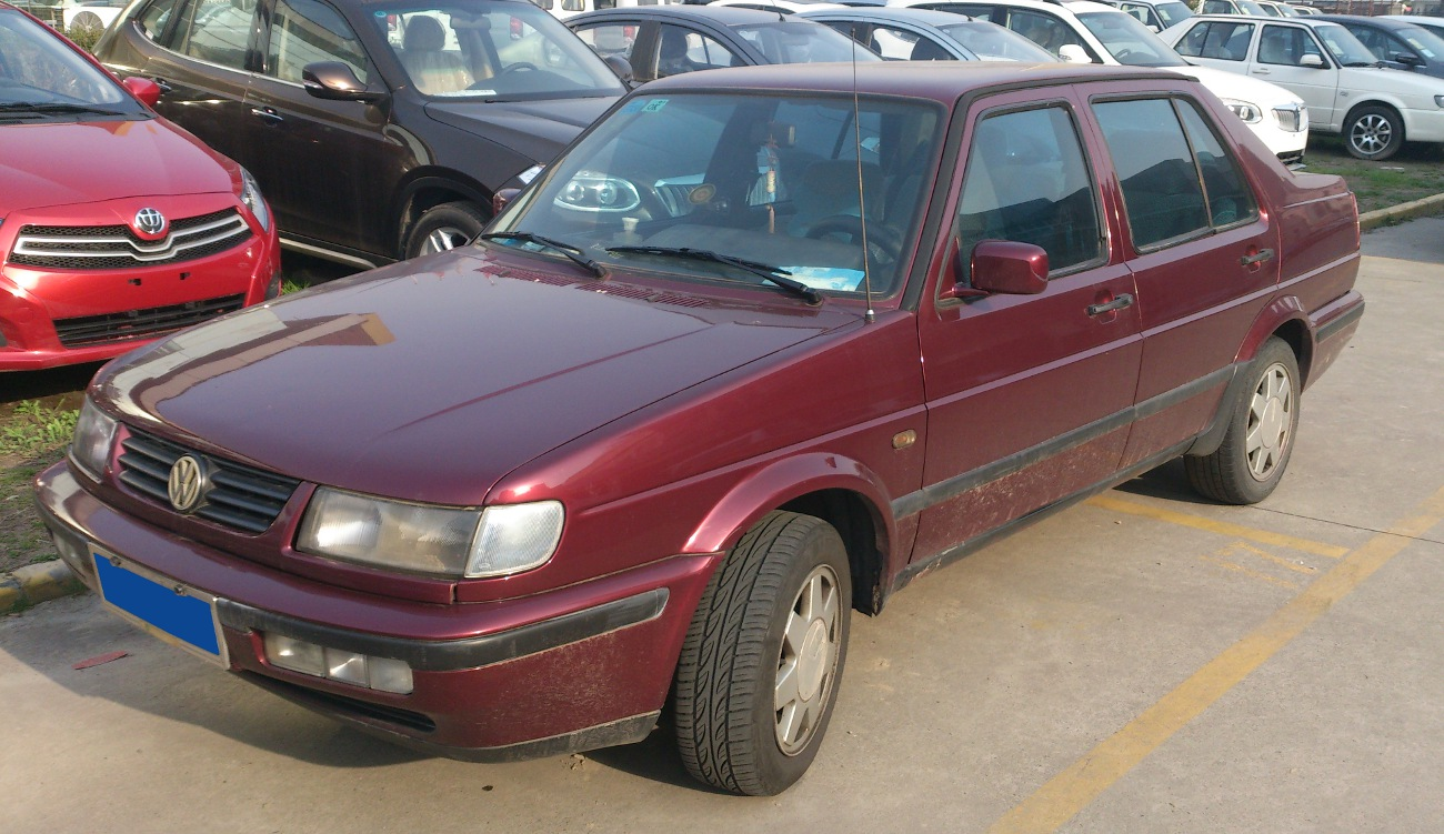 Volkswagen Jetta CN facelift photographed in Shanghai, China.